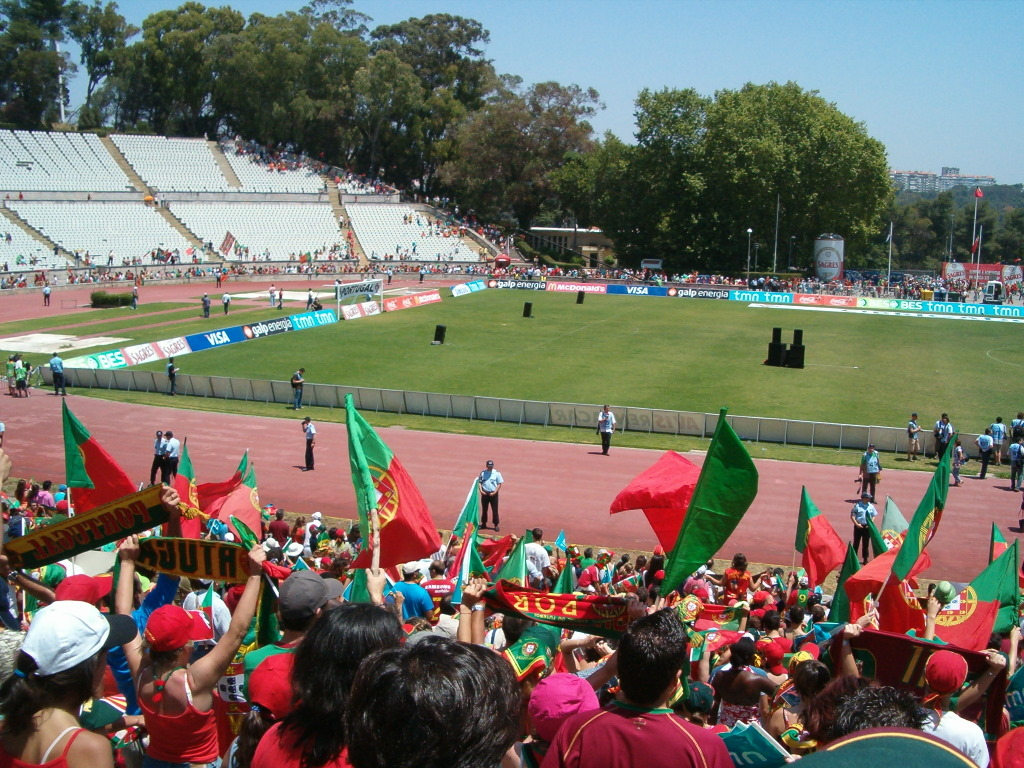 Estádio Nacional do Jamor